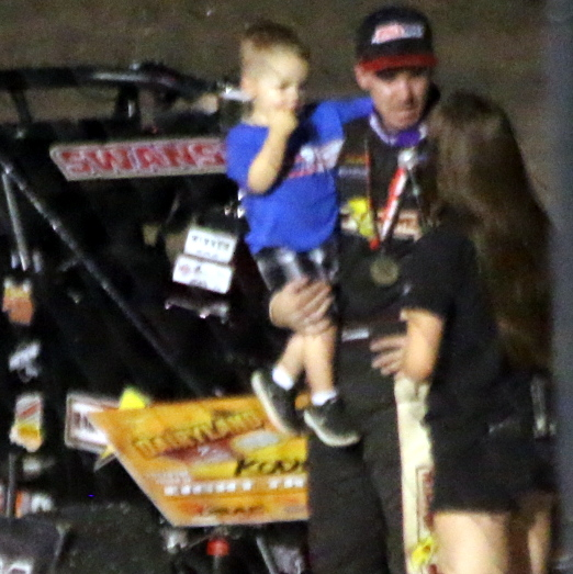 USAC Silver Crown driver Kody Swanson after winning his 23rd series race. The win tied him for the most in the series' history.